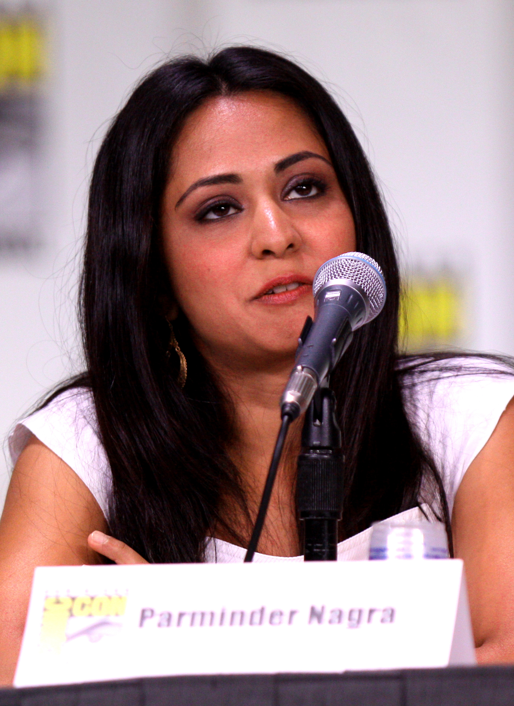 Parminder Nagra at the 2011 Comic Con in San Diego